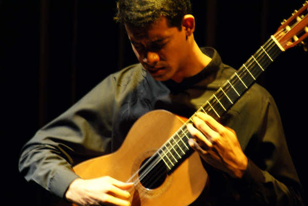 Paraguayan guitarrist José Carlos Cabrera